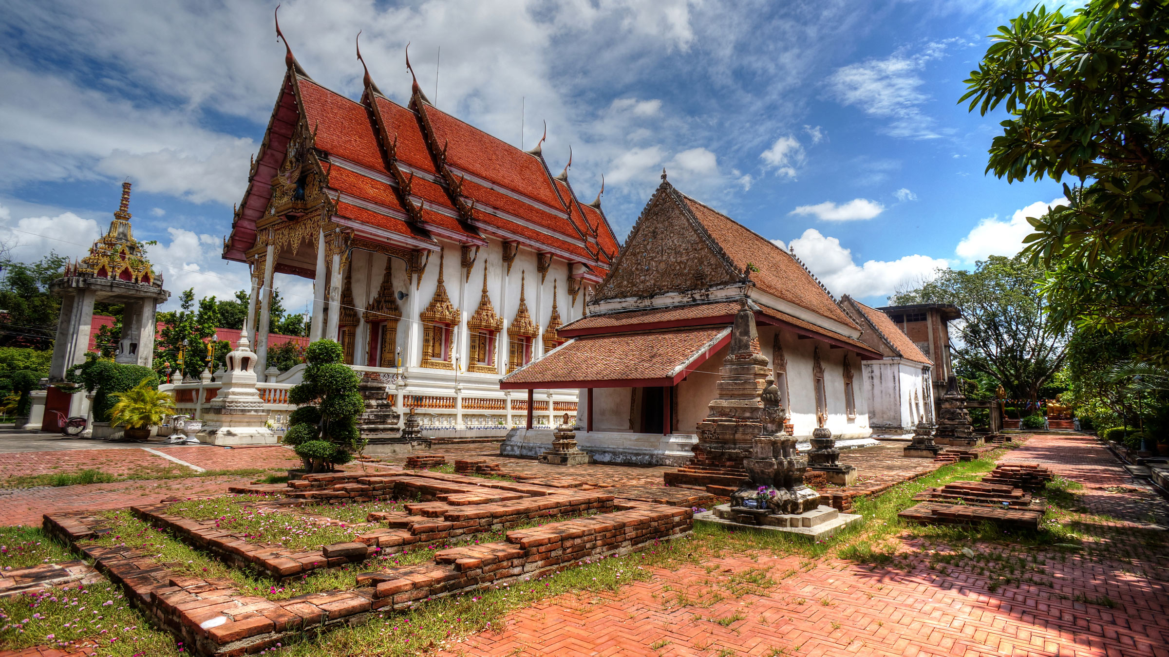 The old ubosot of Wat Chom Phu Wek